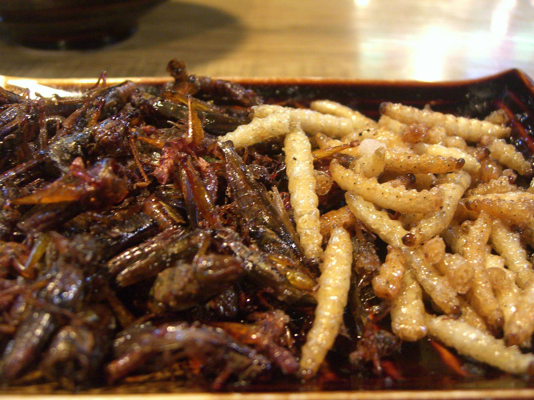 Deep Fried Grasshoppers and Bamboo Worms, as street foods in Kunming, China